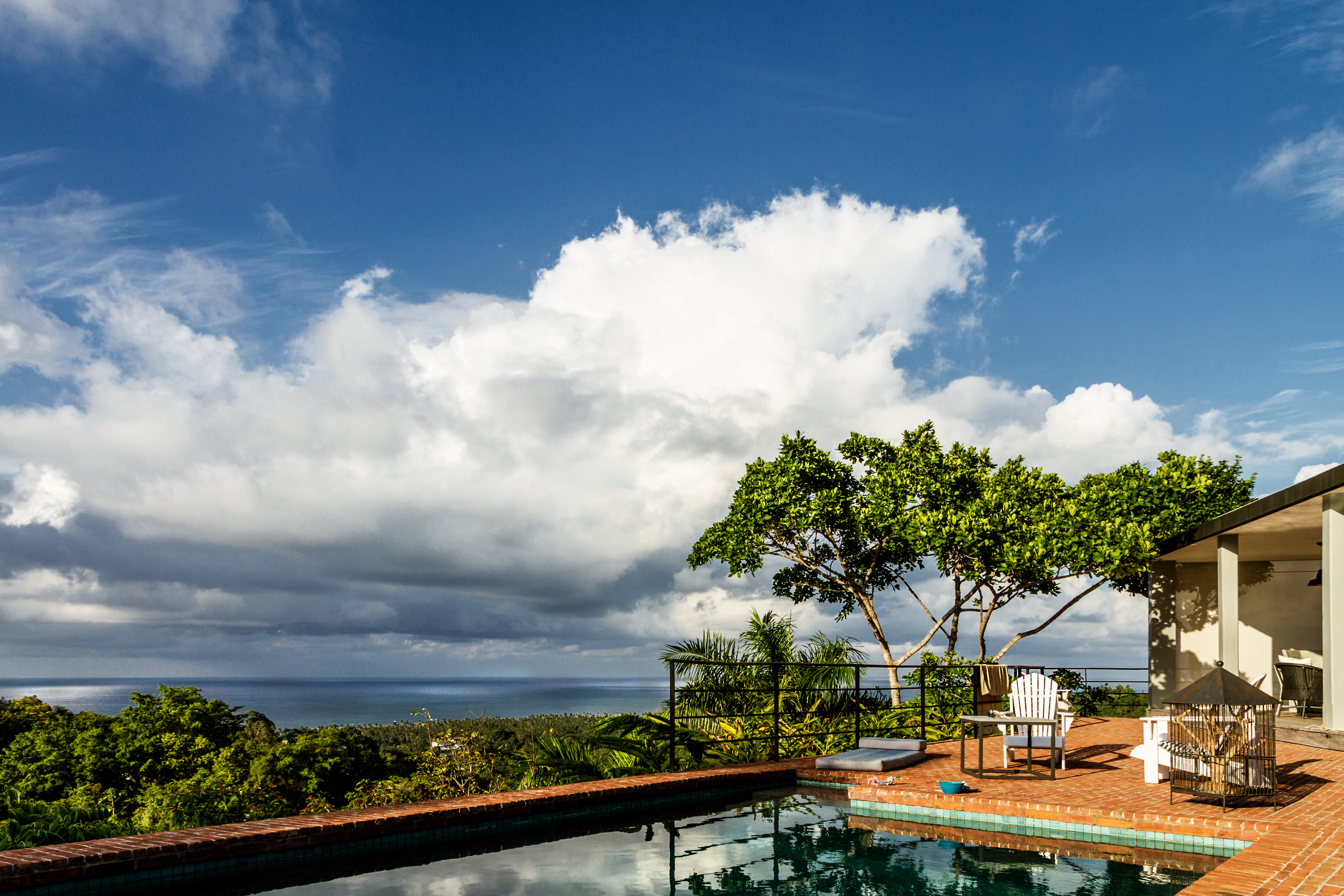 Casa de Giles guesthouse in Las Terrenas